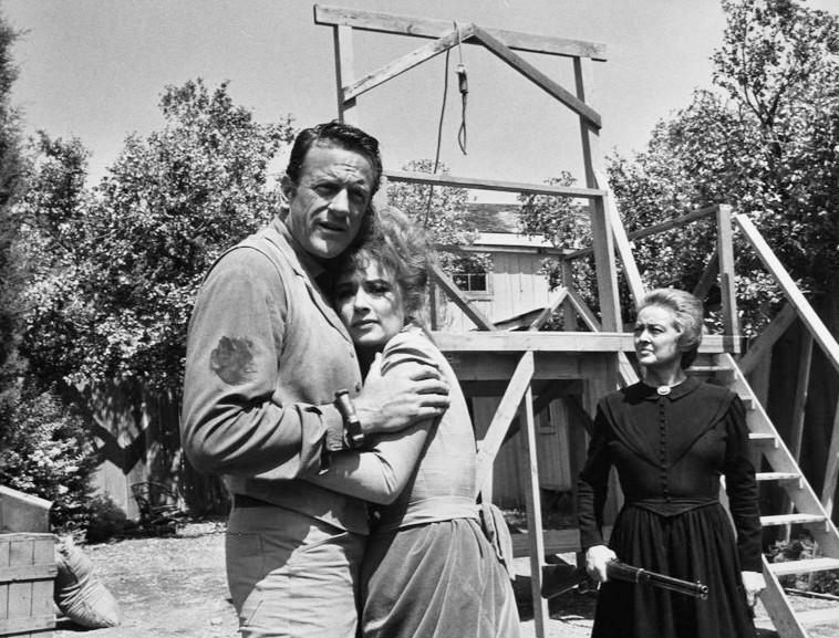 Photo from the television program Gunsmoke. Pictured are James Arness (Matt Dillon), Amanda Blake (Miss Kitty) and guest star Bette Davis.